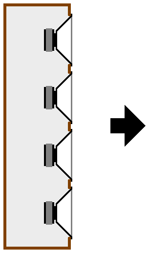 principle of a column loudspeaker (line array loudspeaker box)